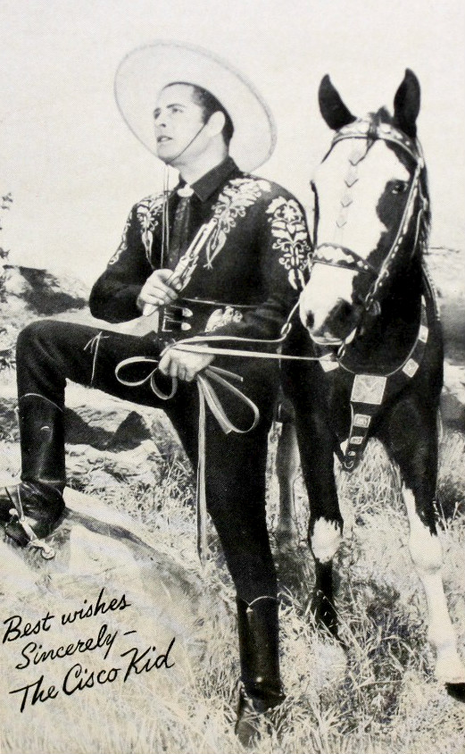 Photo of Duncan Renaldo as the Cisco Kid and his horse, Diablo, from the television series The Cisco Kid. The program was produced by Ziv Productions and was syndicated to local television markets from 1950 to 1956 in its original run. Most often, the program was aired on weekday afternoons as an after-school children's show and was commonly sponsored by a brand of bread--the name of the bread varied with local markets.